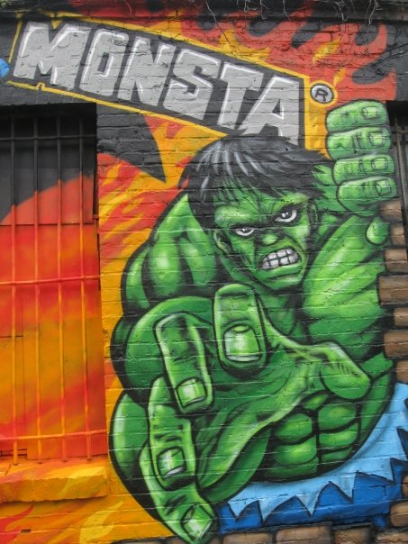 A graffiti art depiction of the Hulk on the East Side Gallery of the Berlin Wall.